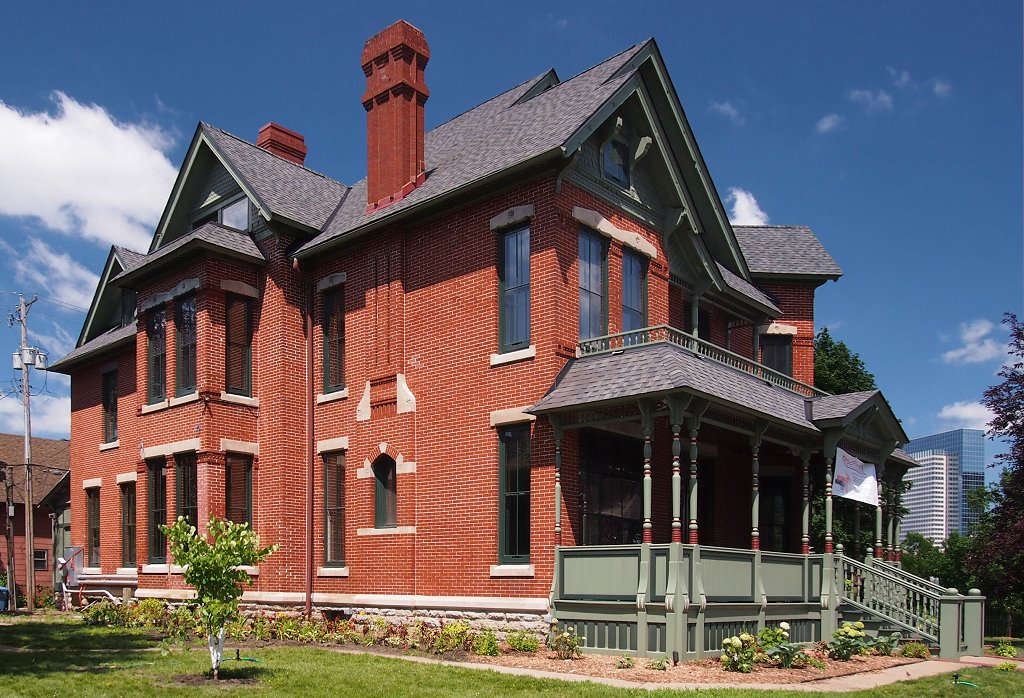 Amos B. Coe House (now the Minnesota African American Museum and Cultural Center), 1700 S. 3rd Ave., Minneapolis, Minnesota, USA. Viewed from the southeast, corrected for tilt distortion.